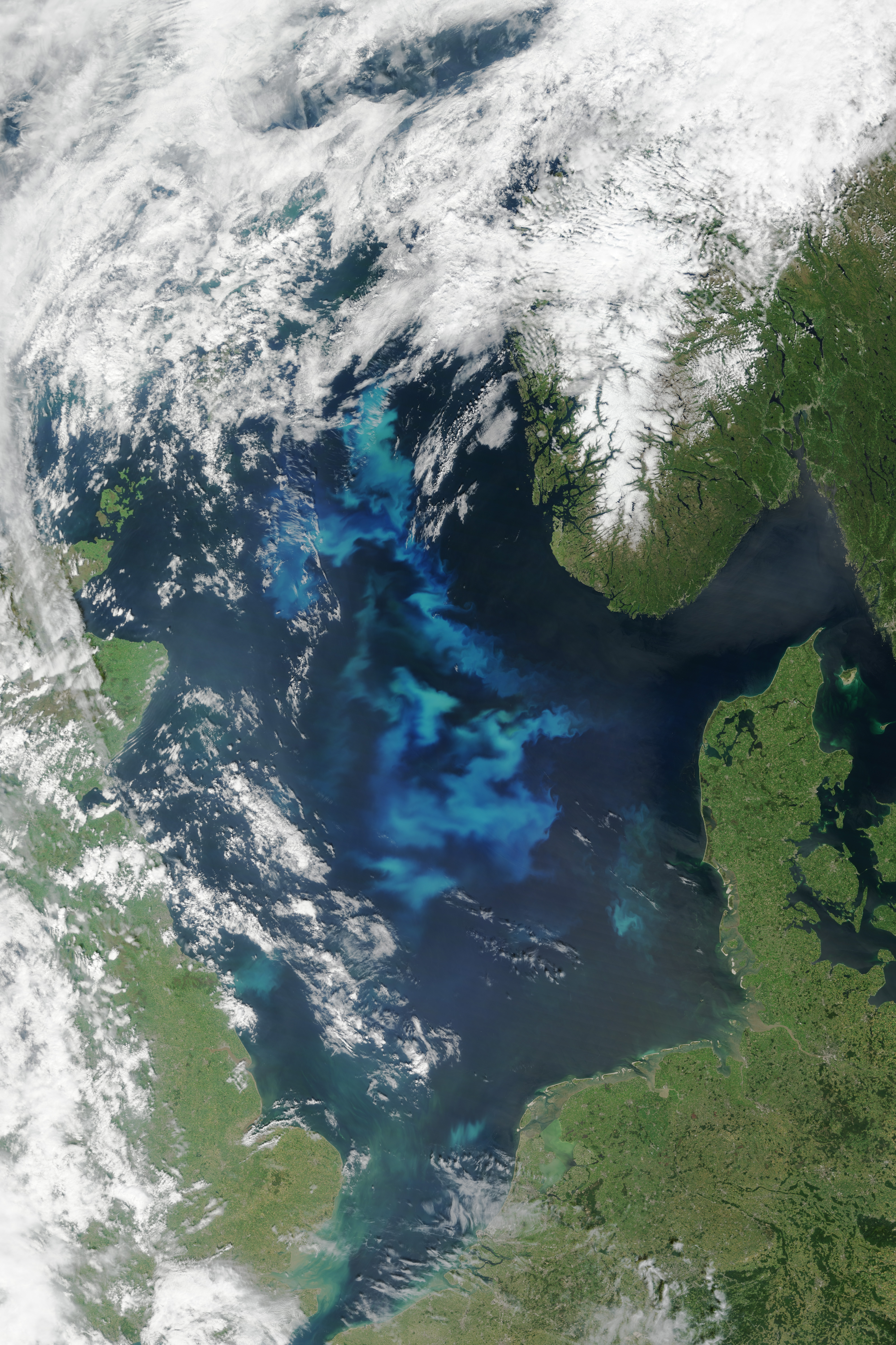 North Sea phytoplankton bloom. Moderate Resolution Imaging Spectroradiometer (MODIS) on NASA’s Terra satellite, July 1, 2015. → The North Sea Abloom. , July 5, 2015; The North Sea Abloom. July 6, 2015